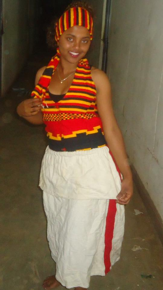 Wolayta girl in cultular dressing